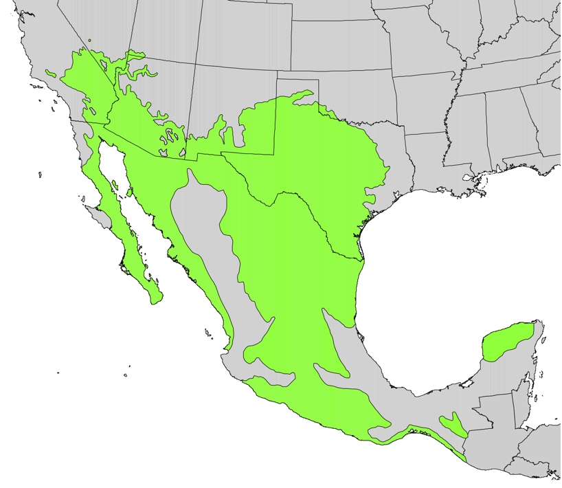 Range map of Prosopis juliflora